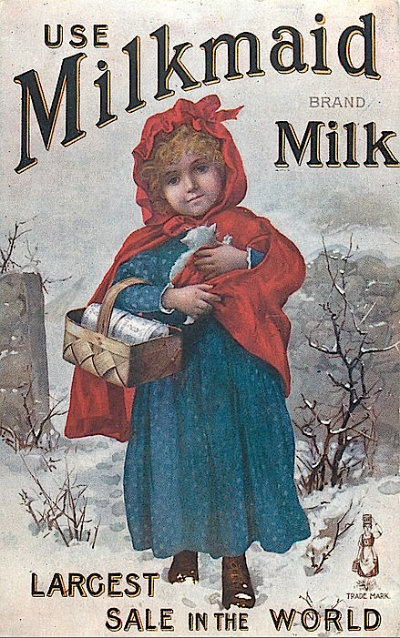 Use Milkmaid Brand Milk Largest Sale in the World, poster designed by Raphael Tuck & Sons in London. The milk product was originaly a trade mark of Anglo-Swiss Condensed Milk Company.